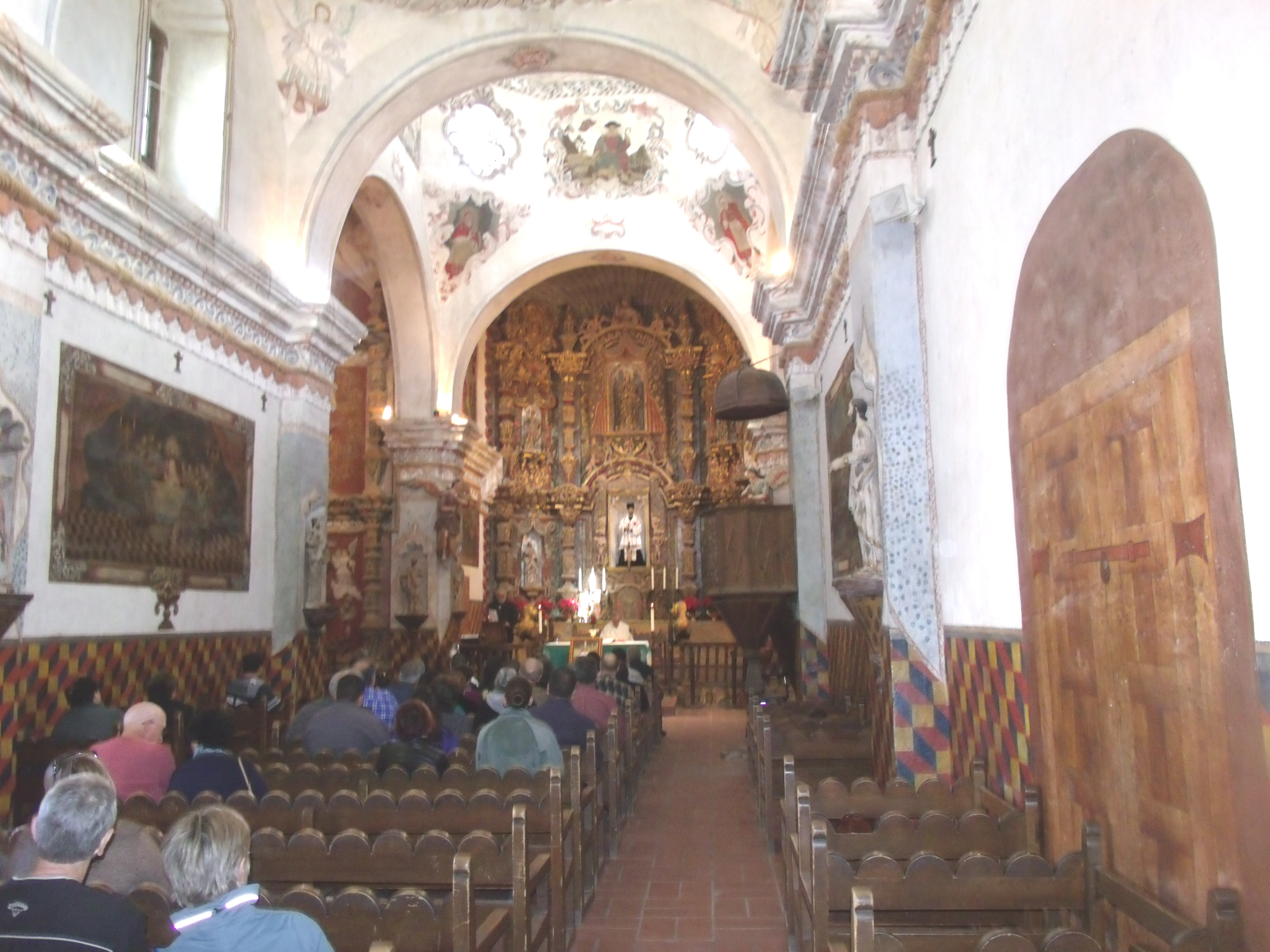 Inside the Mission San Xavier del Bac which was rebuilt 1783-1797 and is located at 1950 West San Xavier Rd. Tucson, Az. Every wall is covered with paintings. The church was first built when Arizona belonged to Spain. Later Arizona became part of Mexico and finally a state of the United States of America. It is the oldest European structure in Arizona. It was listed in the National Register of Historic Places in 1966, ref.: #66000191.